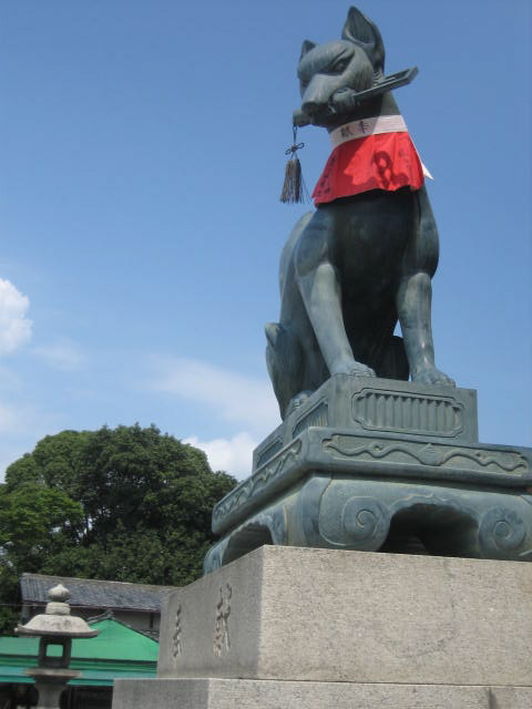 Statue of Kitsune (fox) holding a key in its mouth, at the main gate to the Fushimi Inari-taisha shrine near Kyoto. (Photo September 7, 2007 by Geoffrey A. Landis)